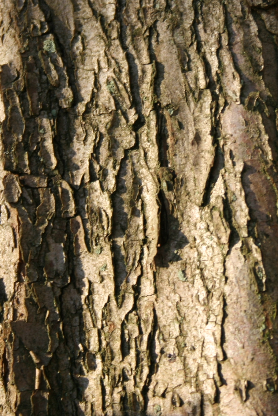 Crataegus laevigata: Bark